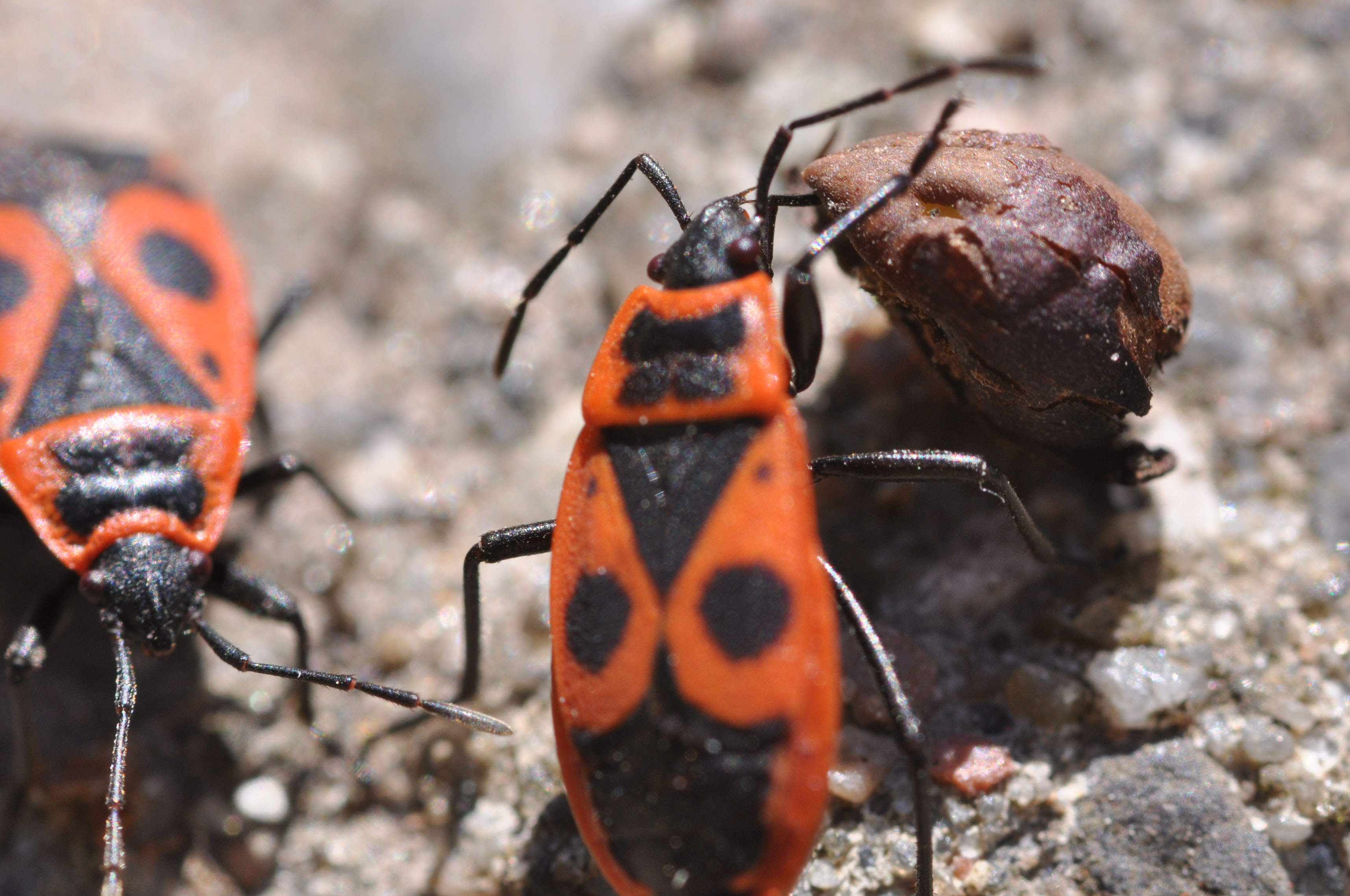 Firebug eagerly rolls a linden fruit. Bahrenfeld, Hamburg